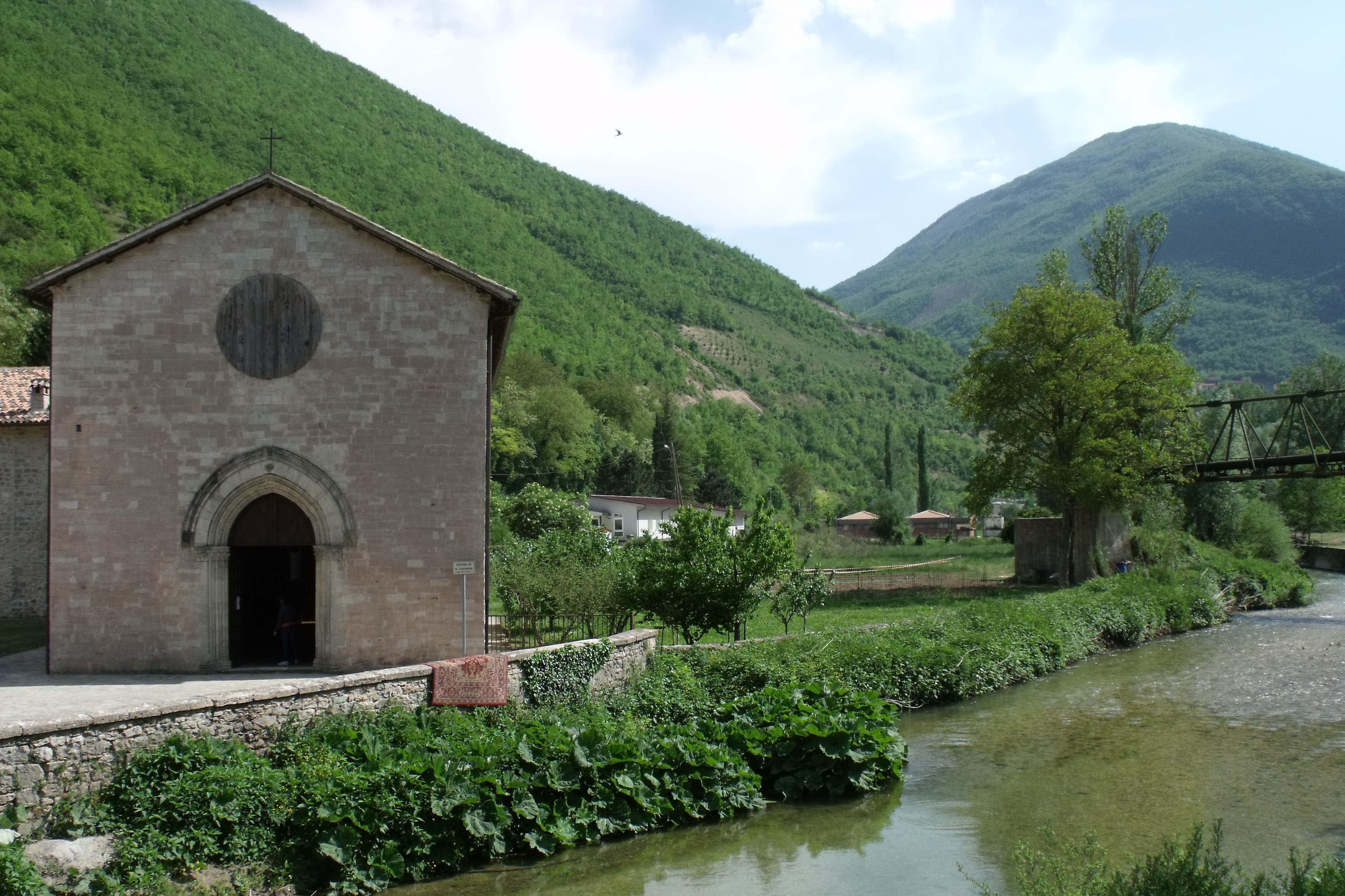 The Church of San Lorenzo near the River Nera in Borgo Cerreto, Cerreto di Spoleto, Valnerina, Province of Perugia, Umbria, Italy